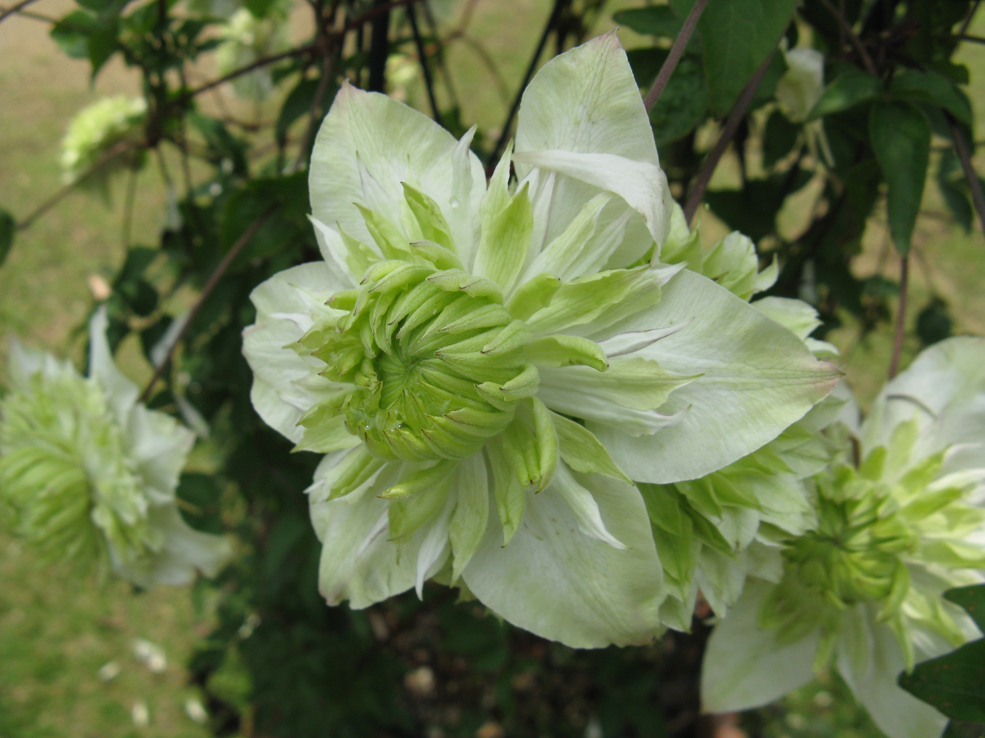 Scientific name Clematis florida 'Alba Plena' Place:Osaka Prefectural Flower Garden,Osaka,Japan